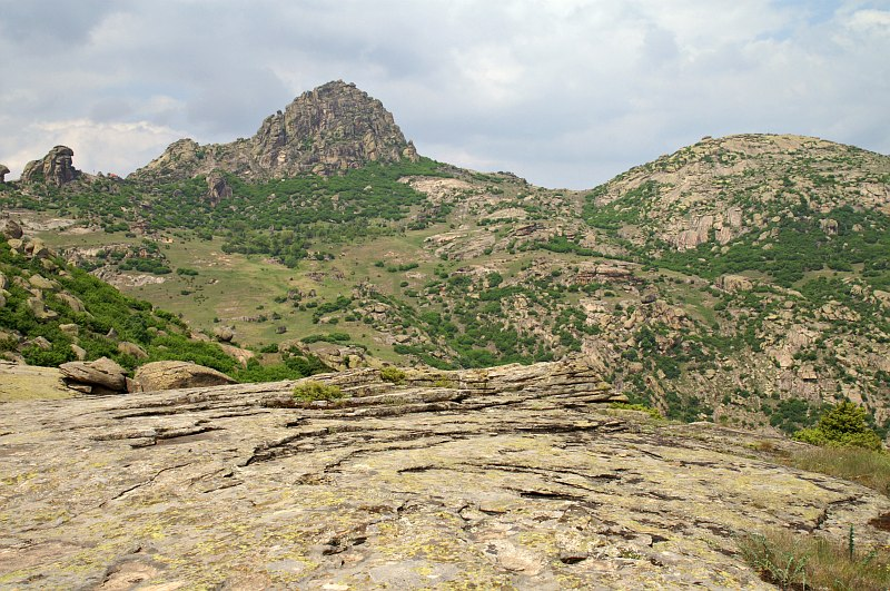 Mount Zlato, north of Prilep. The photo was taken from one of the trails from Prilep to Treskavec Monastery.